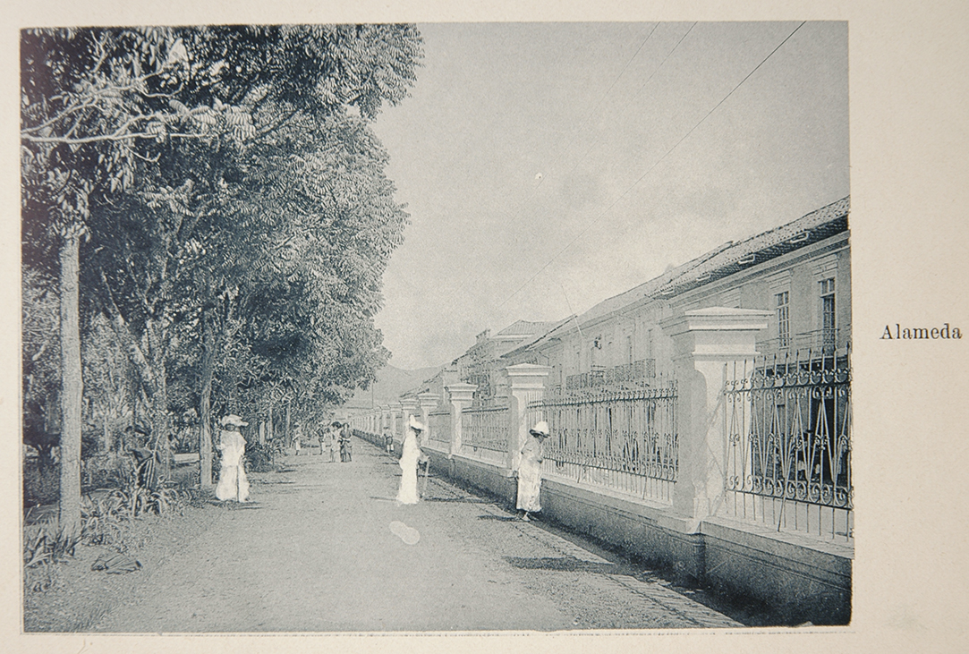 Three women walk through the Alameda Park in Quito in 1911. If you look closely you can see that a dress and a woman's suit has been "painted" on the natives